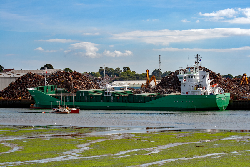 Arklow Rose, aground at Drivers Wharf on the River Itchen in Southampton, loading scrap metal IMO 9238399 Other names: Celtic Venturer Information about the vessel may be found at IMO 9238399.A ship can change name and flag state through time, but the IMO number remains the same through the hull's entire lifetime. As a result, it can be useful to identify a ship by using the IMO number.